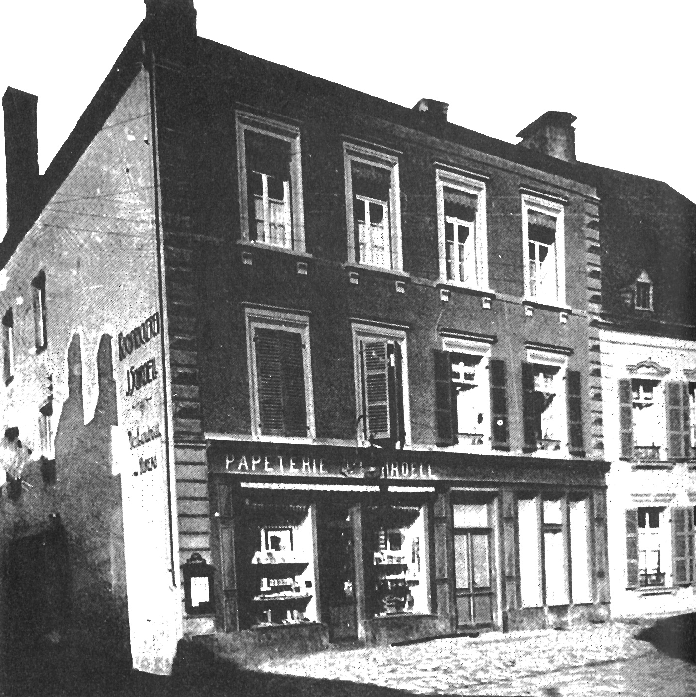 The printing company Schroell, rue Saint-Antoine, Diekirch.